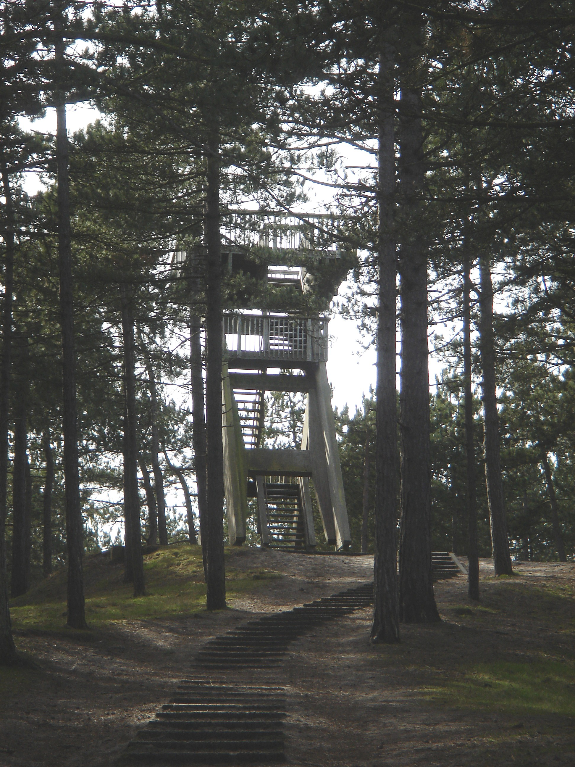 Lookout point Fonteinsnol, south of De Koog, Texel, Netherlands.